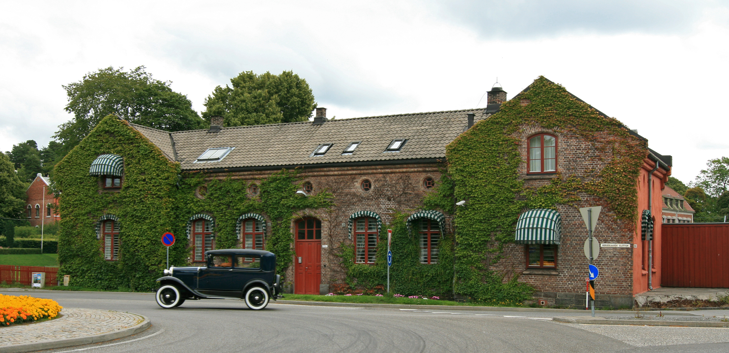 Larvik district penitentiary, Larvik, Norway. Erected 1863. Architects: Heinrich Ernst Schirmer and Wilhelm von Hanno.